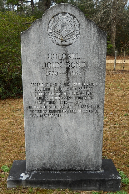 Monument at grave site of Lt. Col. John Bond, Jr., Bond Cemetery, Harrison County, Mississippi, USA